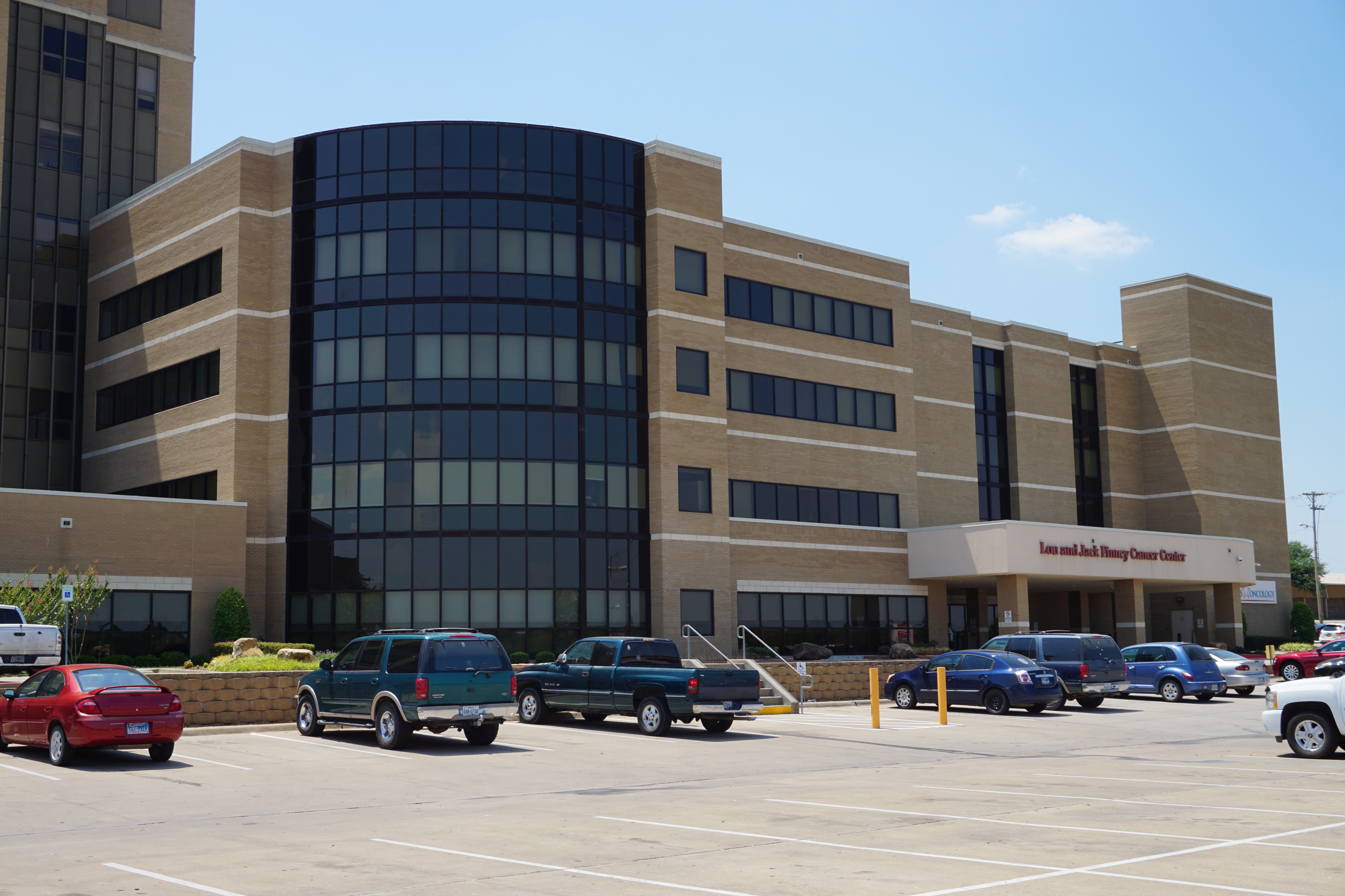 The Lou and Jack Finney Cancer Center at Hunt Regional Medical Center in Greenville, Texas (United States).